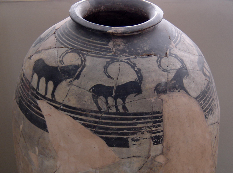 Pottery Vessel, Fourth Millennium BC. The Sialk collection of Tehran's National Museum of Iran. Photo by Zereshk. Sony 5.1 MegaPixel camera.